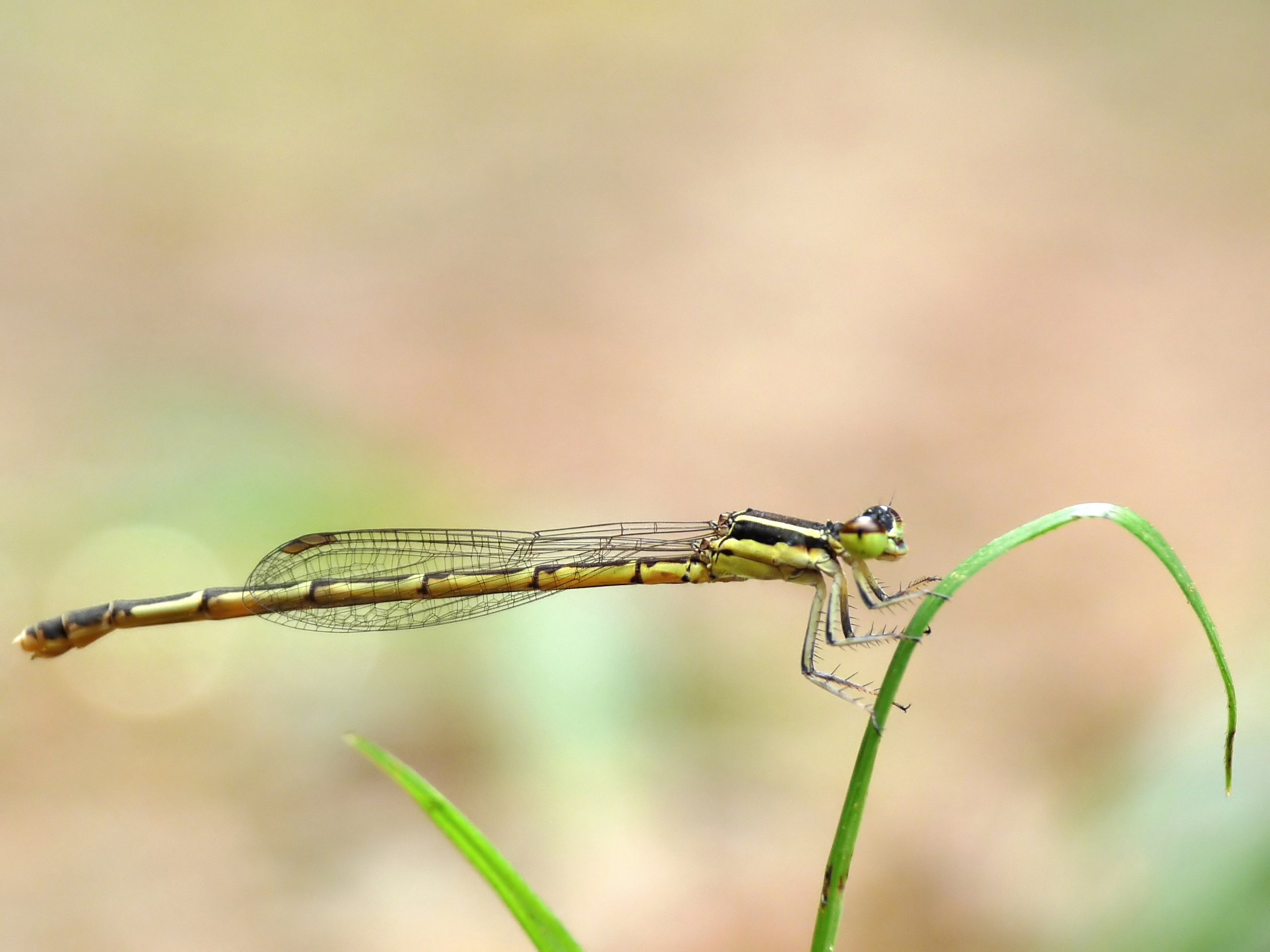 Agriocnemis splendidissima, Splendid Dartlet, is a small black and blue damselfly in the Agriocnemis genus in the Coenagrionidae family with greenish blue eyes. Eyes are black above, greenish blue below, with a fine brown equatorial belt. Thorax is black with narrow greenish blue dorsal stripe. Two broad lateral blue stripes are also present. Abdomen is blue with extensive black markings. The dorsal surface of first and second segment has extensive black markings. The black markings on segments 3-7 are spatula shaped and remaining segments are black with blue ventral sides. This damselfly is closely associated with streams and lakes which have emergent aquatic vegetation.